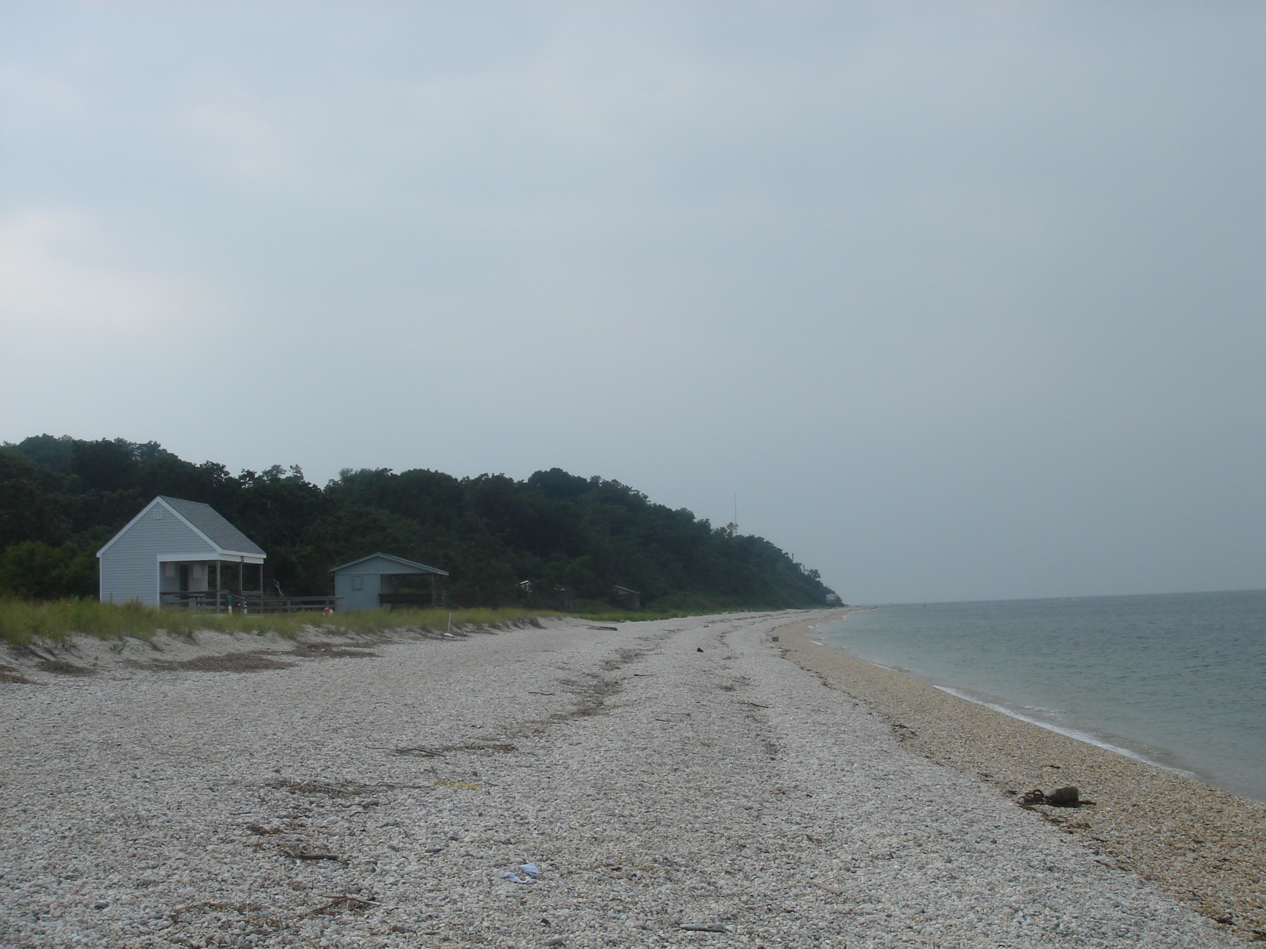 Crane Neck Beach in Old Field, Long Island.